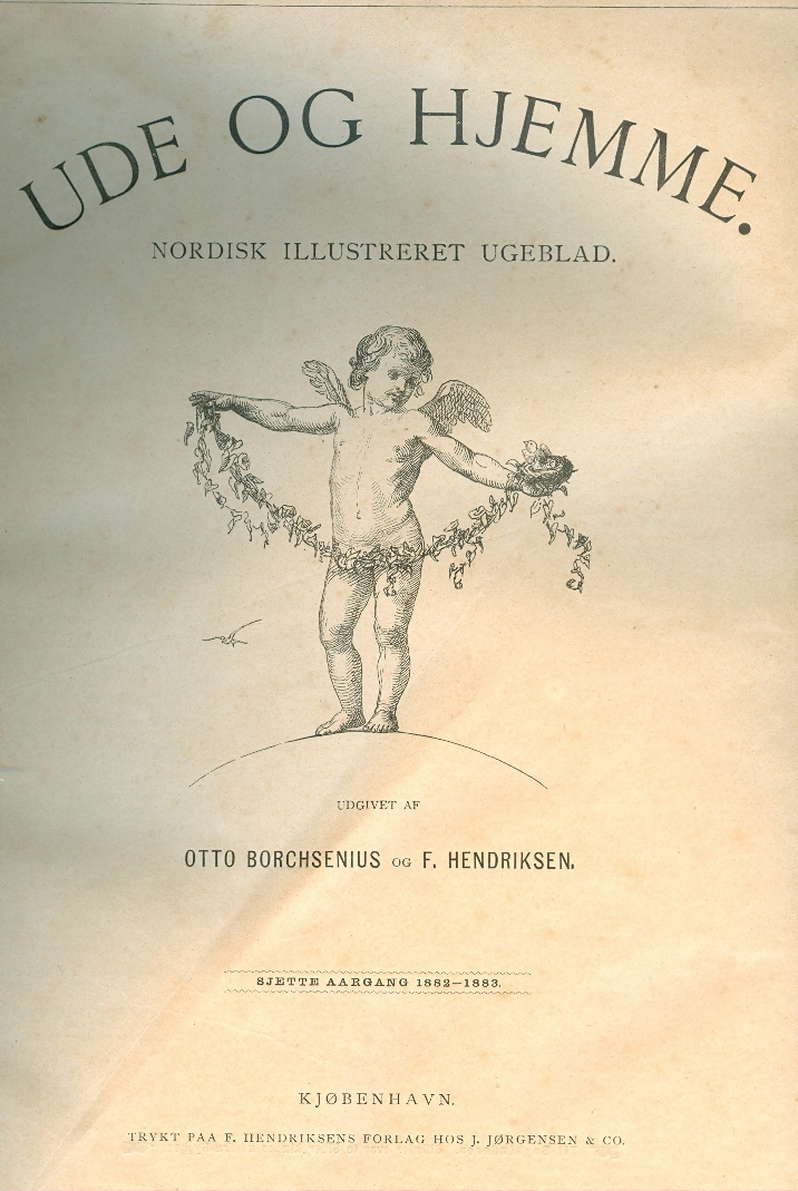 Ude og Hjemme, Danish weekly magazine 1877-84